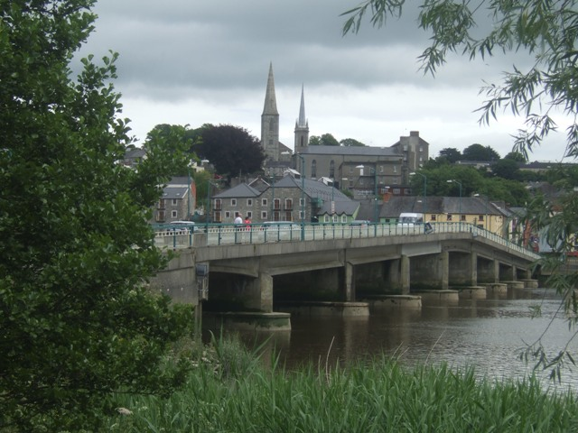 River Barrow Bridge The bridge at New Ross is the first inland crossing of the River Barrow. There is a ferry lower down the river at Passage East.